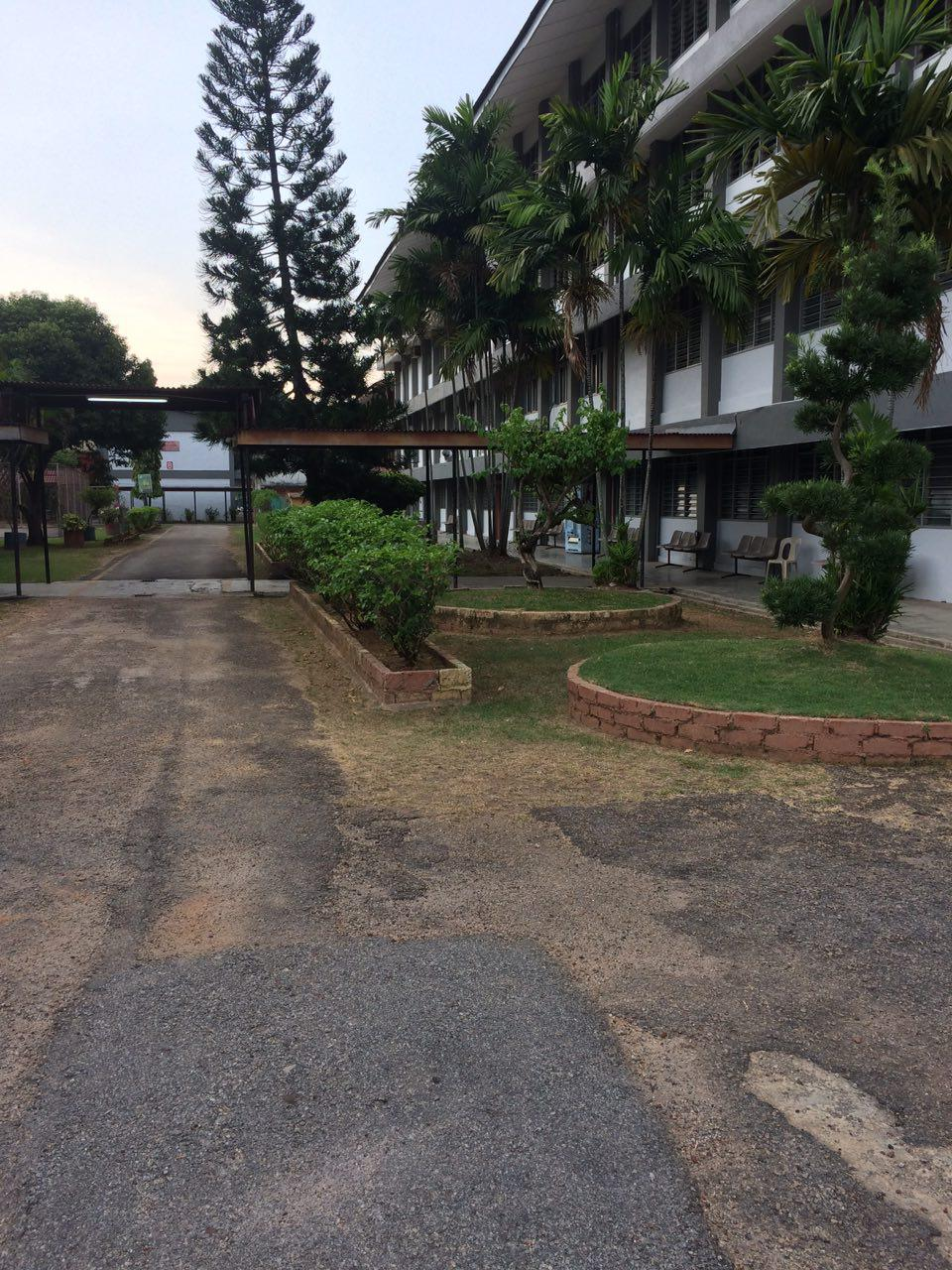 Susur ke dewan